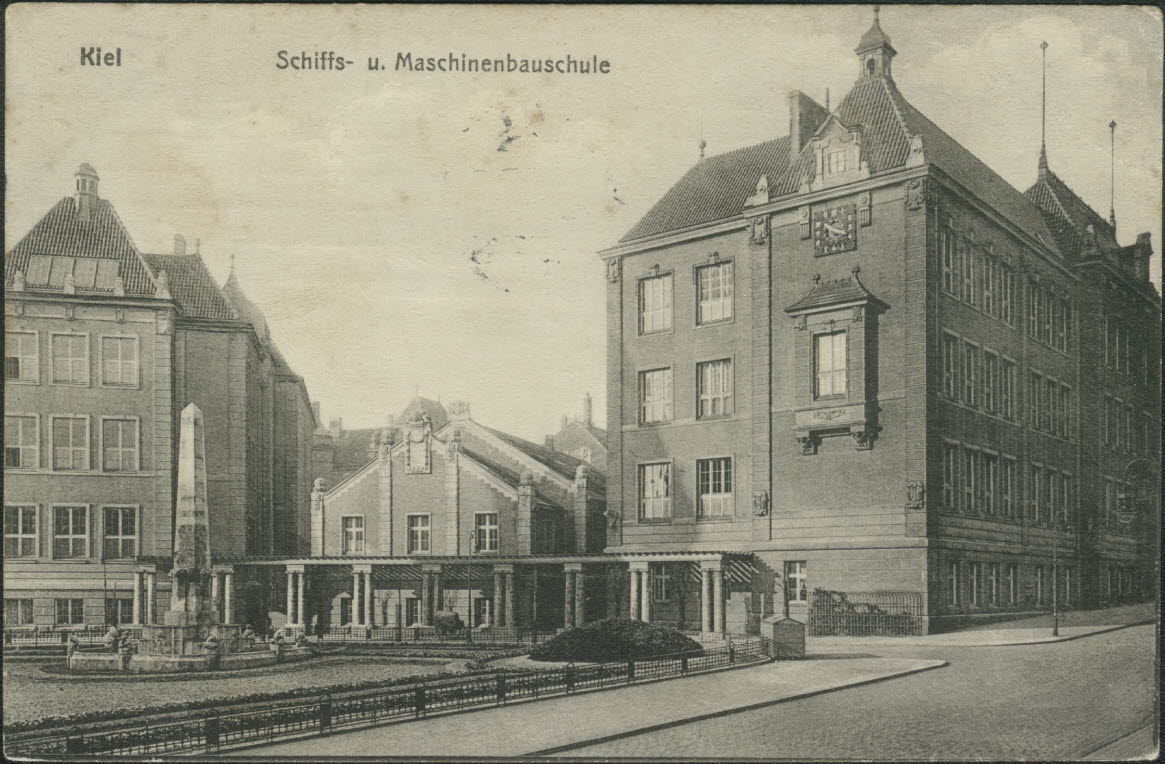 Kiel 1910: Higher School of Engineering and Mechanical Engineering and Municipal School of Business in Legienstraße 35 (View from the Legienstraße) (Photographer: Jacobsen, Wilhelm (1853-1910))